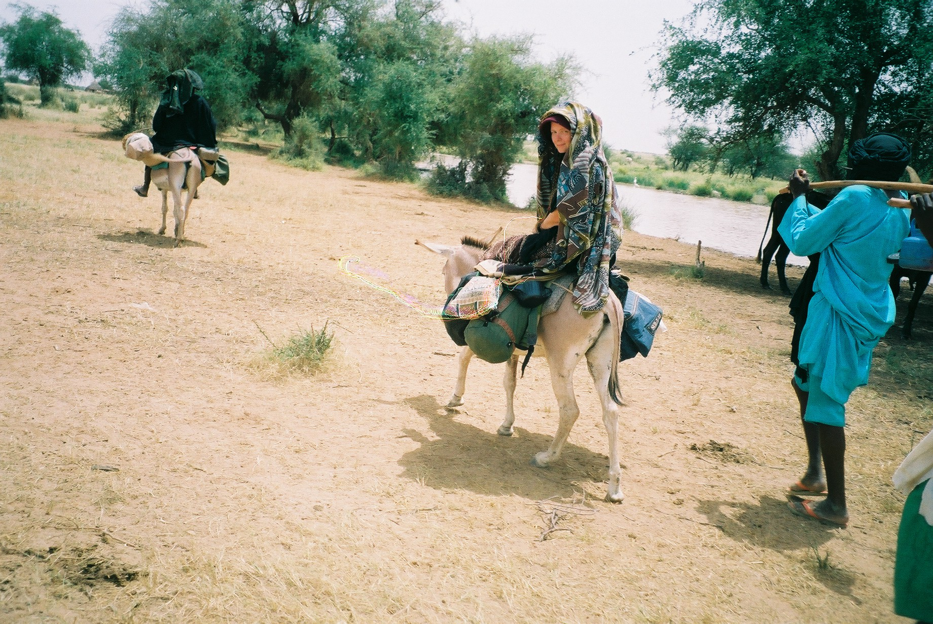 Kristín Loftsdóttir in Niger in 1997 doing PhD fieldwork among the WoDaaBe people